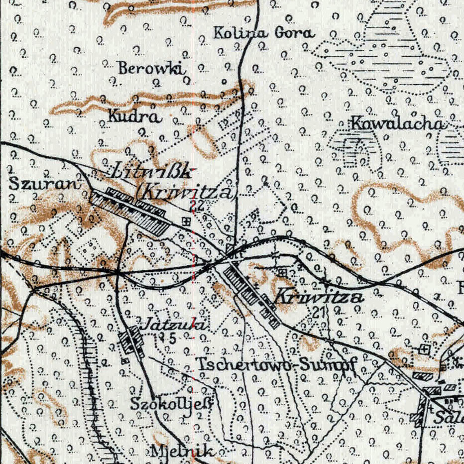 Kryvytsia on the map "Karte des Westlichen Russlands", T 35, 1917. According to Digital Repository of Scientific Institutes and Kujawsko-Pomorska Digital Library the map is in the public domain.